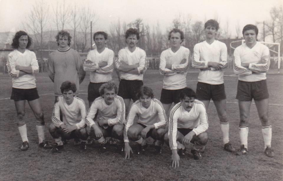 The team of FC Dorog in 1980 with Jozsef Andrusch, the famous goalkeeper.